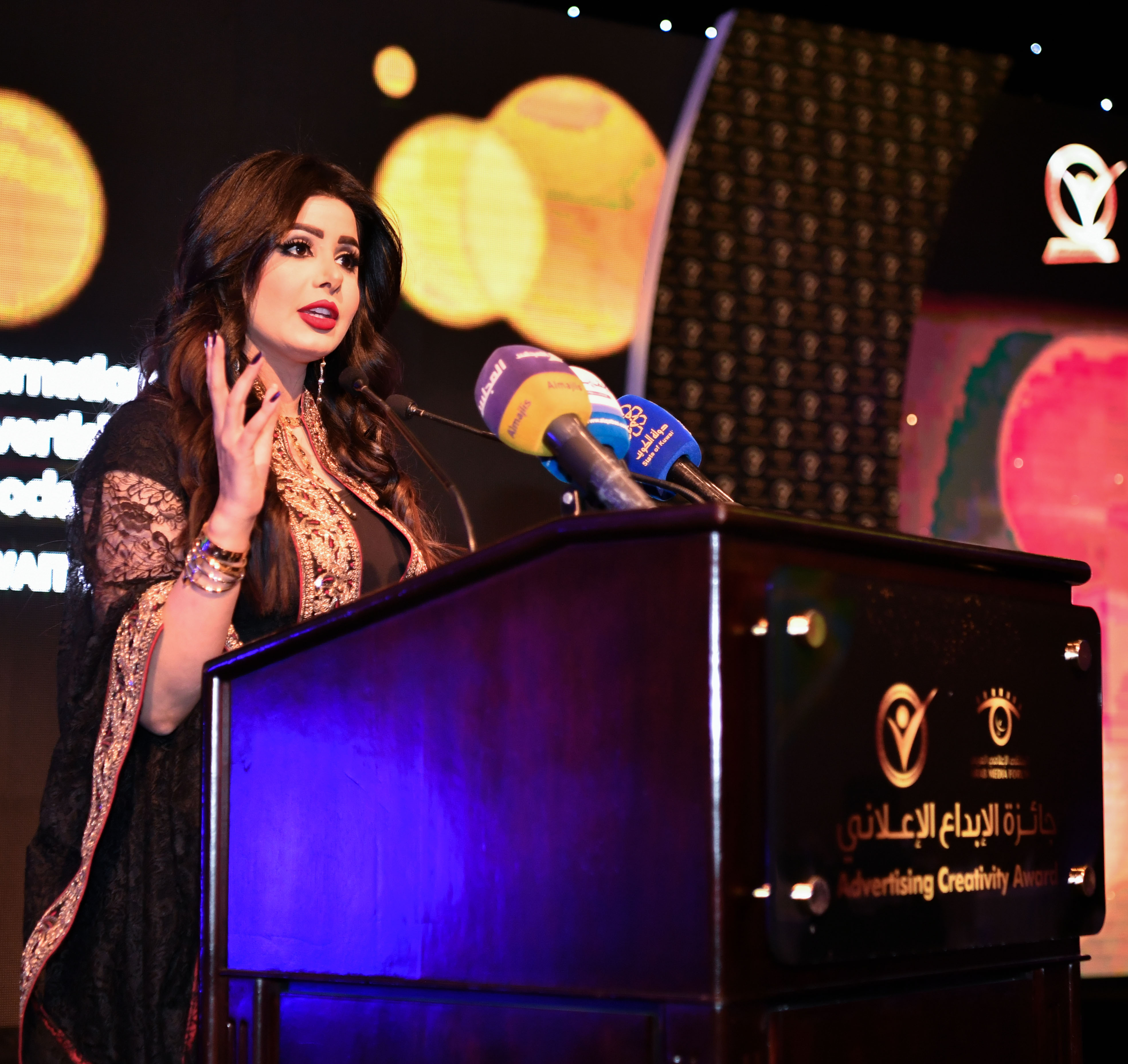 Najla Al Kandari while presenting the Advertising Creativity Awards